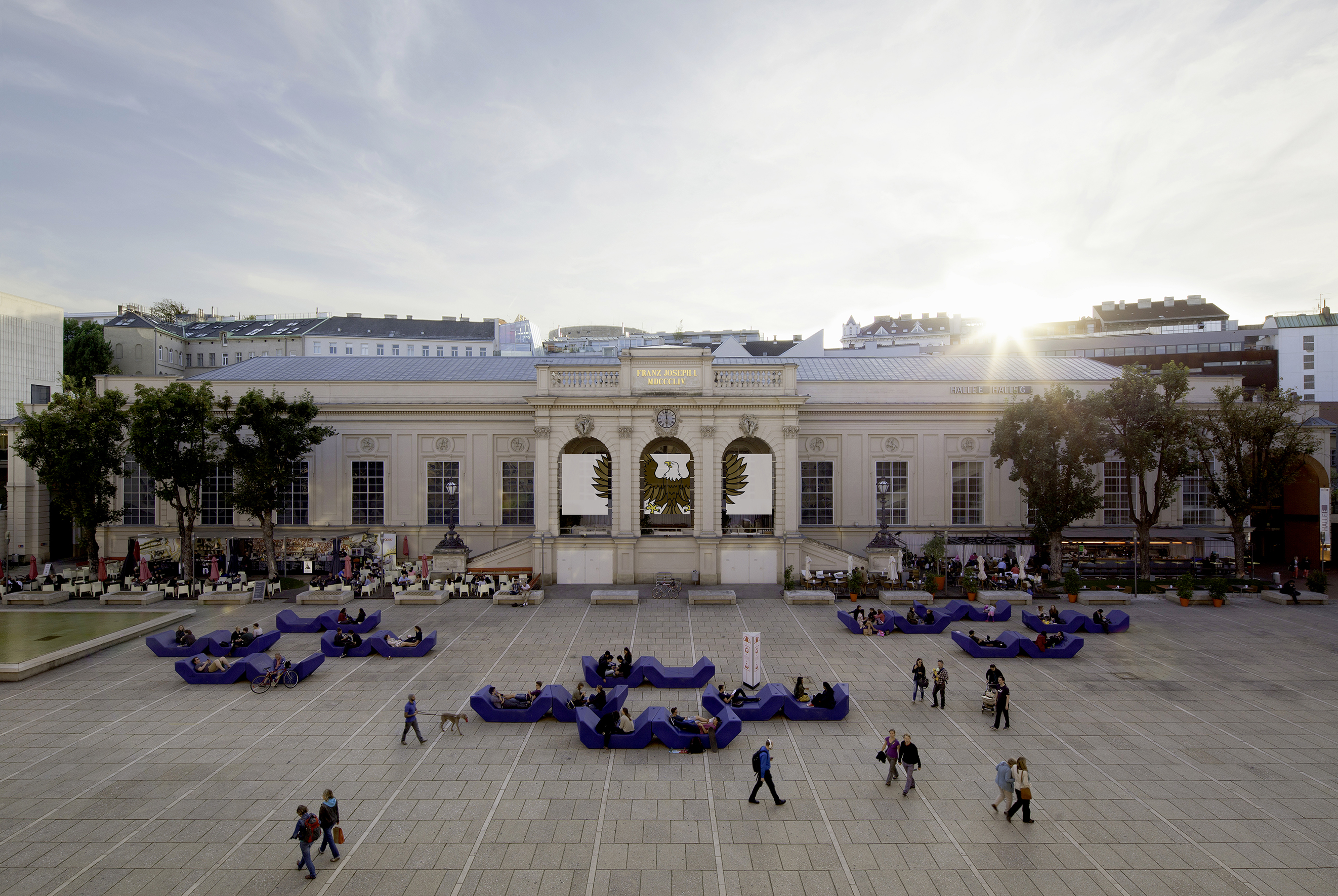 Kunsthalle Wien Museumsquartier Photo: Stephan Wyckoff, 2014